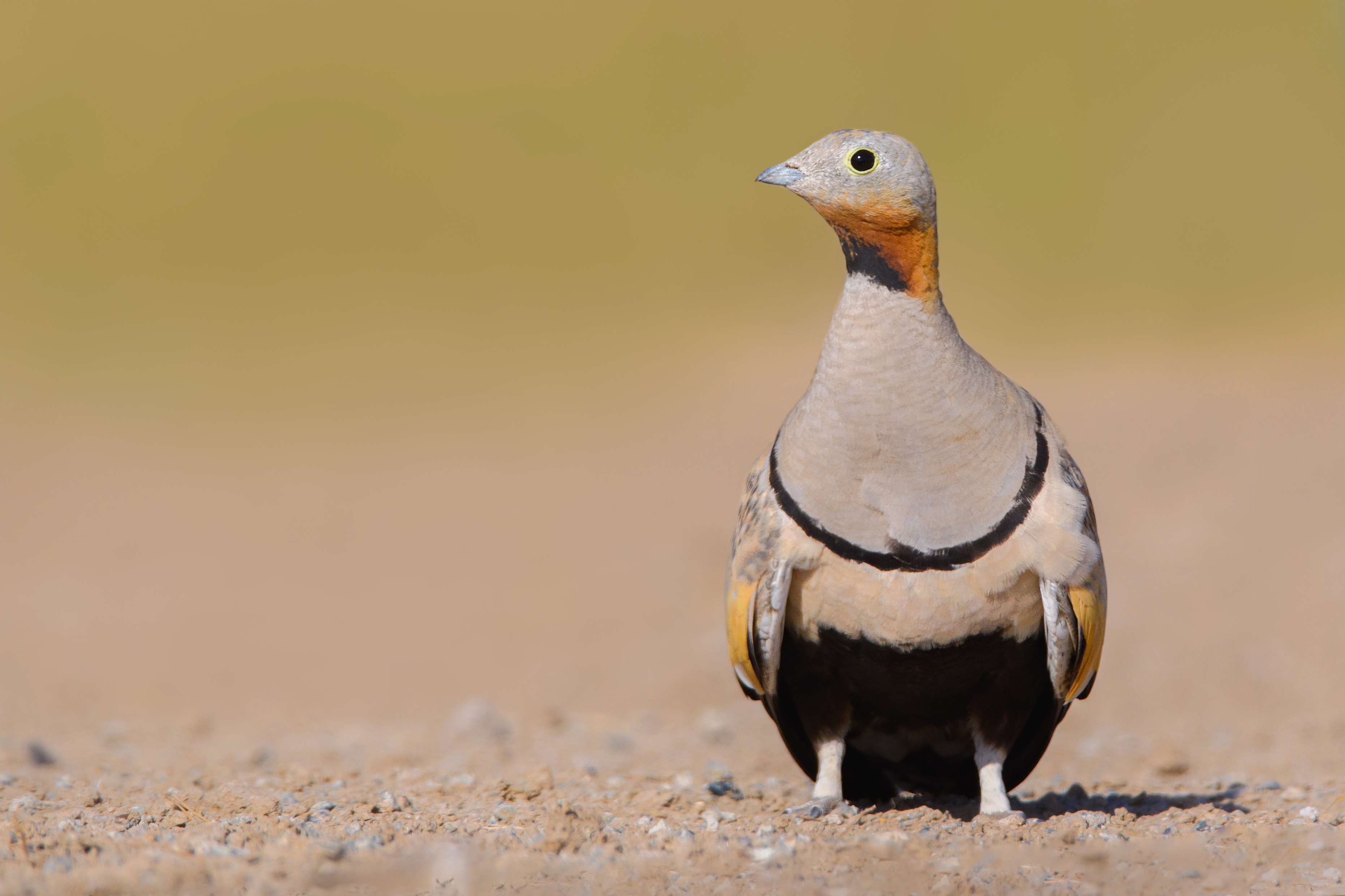 Black-bellied sandgrouse in Shirahmad wildlife refuge of Sabzevar, Iran